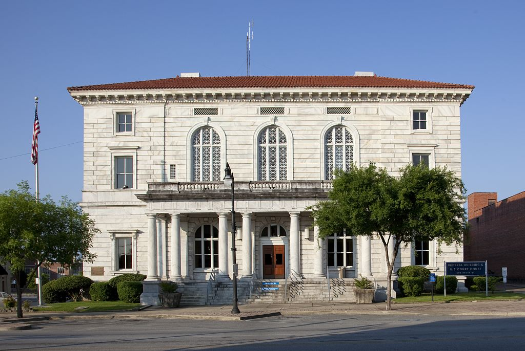 The Federal Building and U.S. Courthouse in Gadsden, Alabama, listed on the National Register of Historic Places.